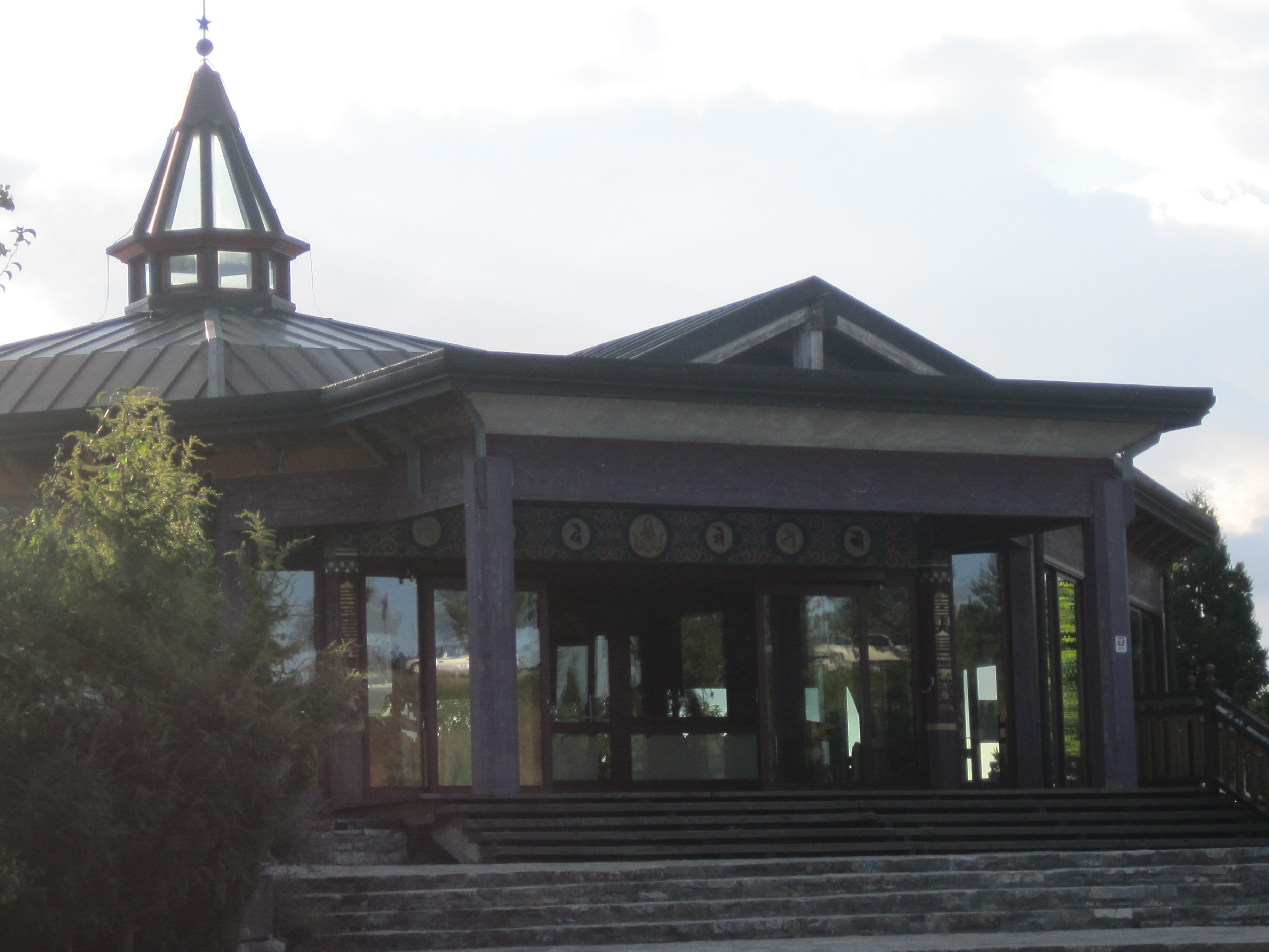 Gompa in Merigar West, Arcidosso (Grosseto)